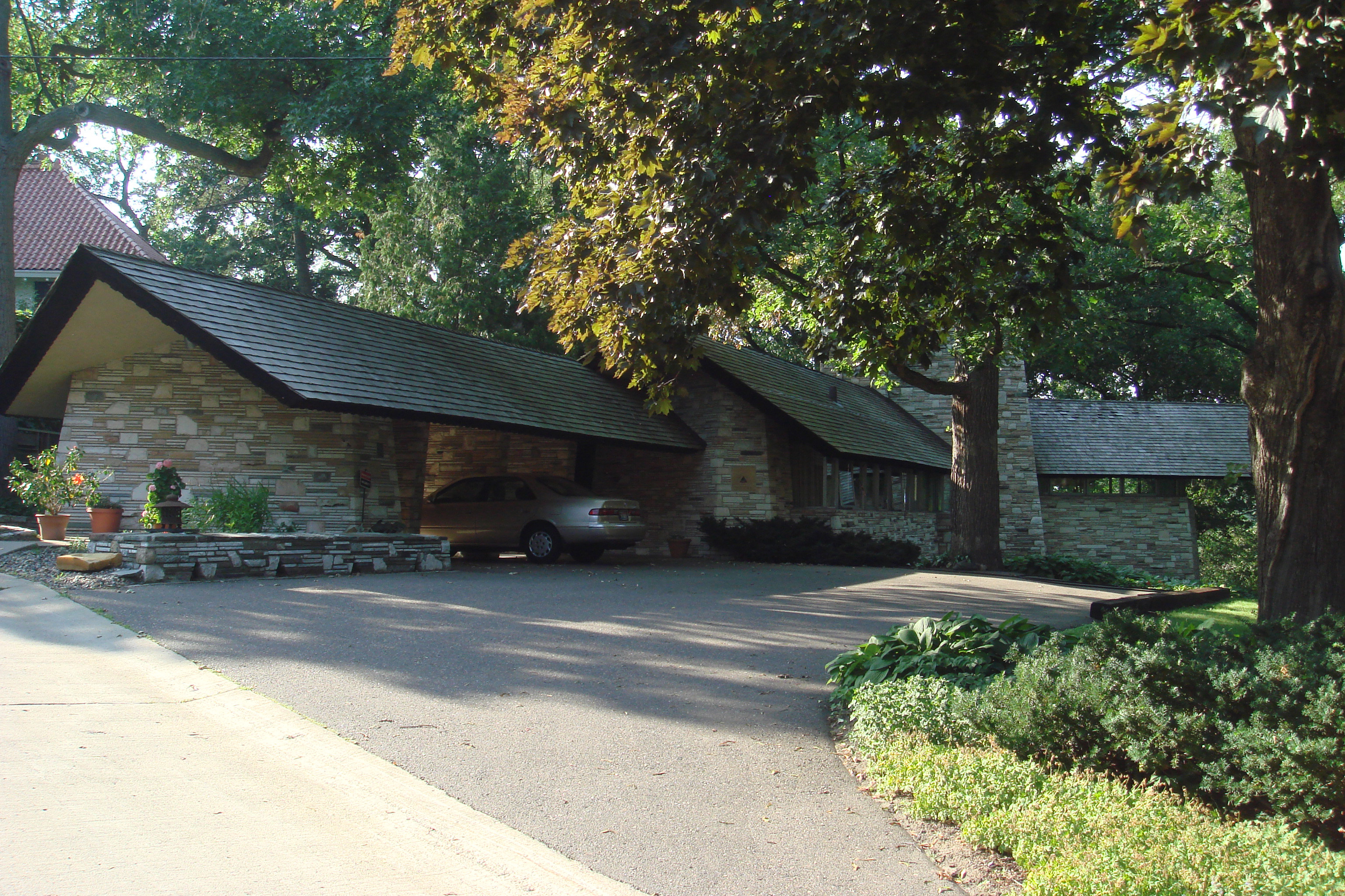 Frank Lloyd Wright's Frieda and Henry J. Neils House (1951) in Minneapolis, Minnesota.